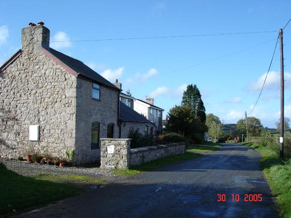 Cottages at Babell. Stone cottage and houses on a lane leading out of the hamlet of Babell